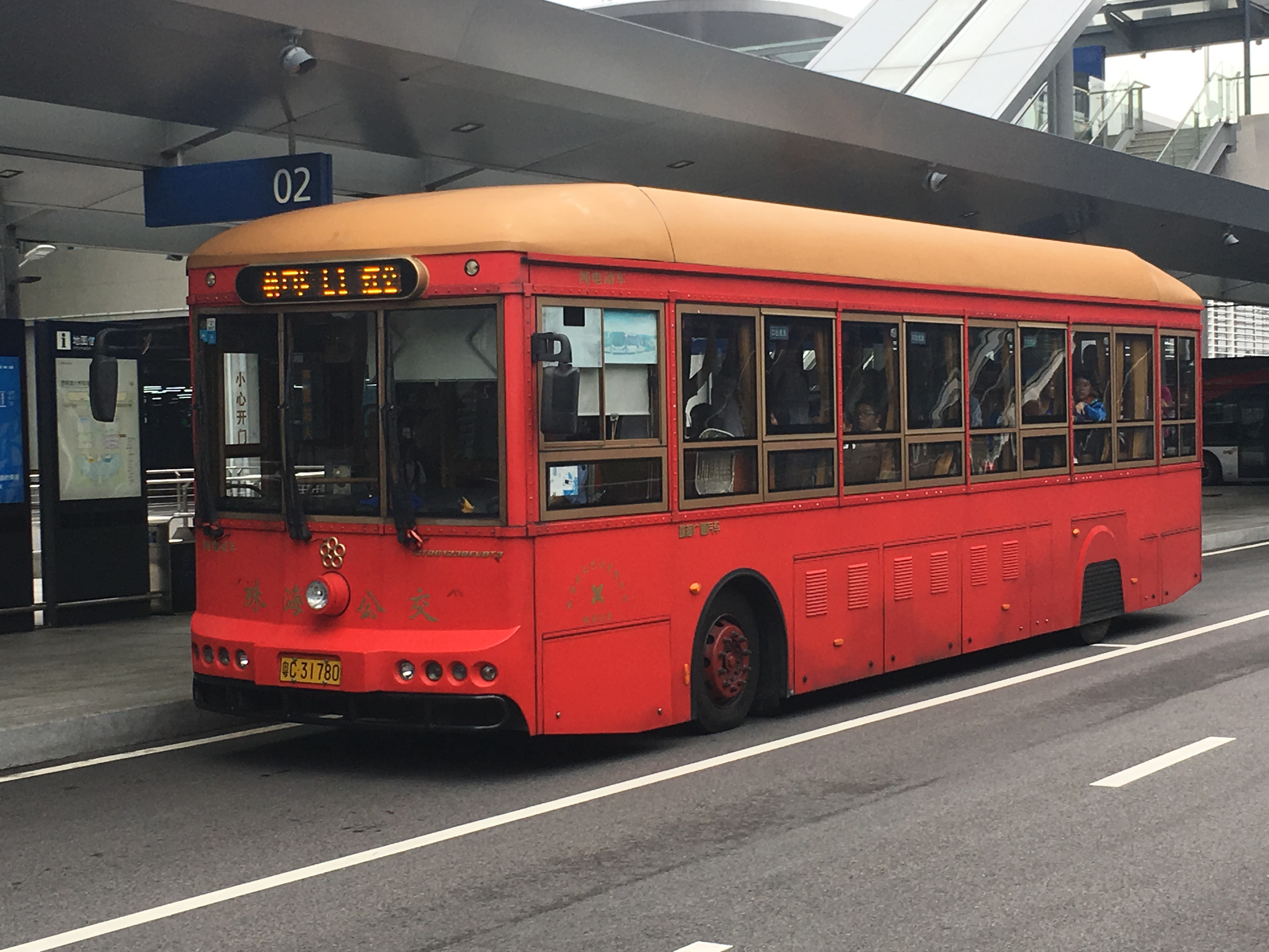 中文（香港）: This photo is taken in HZMB Zhuhai Port.